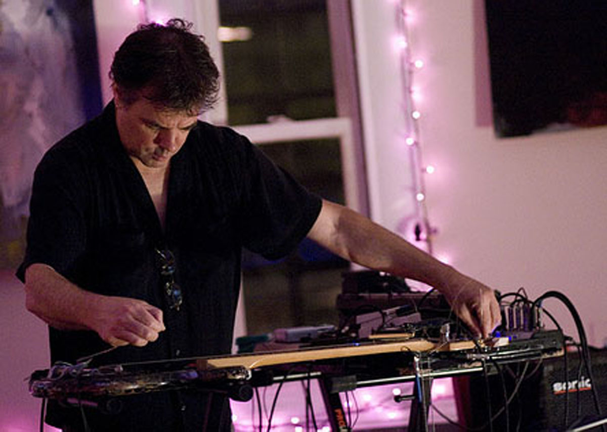 PHOTO by Bridget Toner Ben Miller / degeneration (multiphonic guitar & treatment) Live @ The Armory, Somerville, MA May 4, 2010